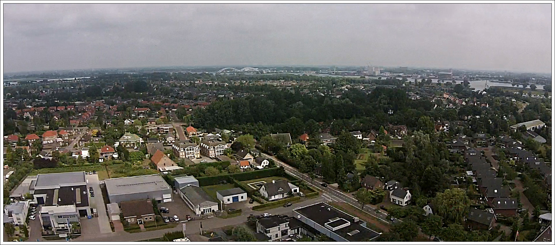 Arial view over the town of Sleeuwijk. The river Merwede can be seen in the background, as well as the Merwede Bridge.